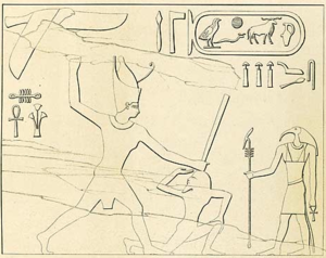 Drawing of a rock inscription of Khufu from the Wadhi Maghara, made by Karl Richerd Lepsius.